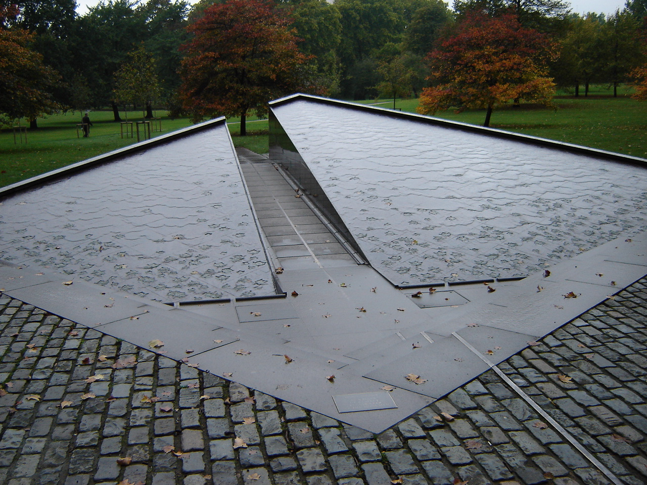 Canada Memorial - war memorial in Green Park, London by Canadian artist Pierre Granche